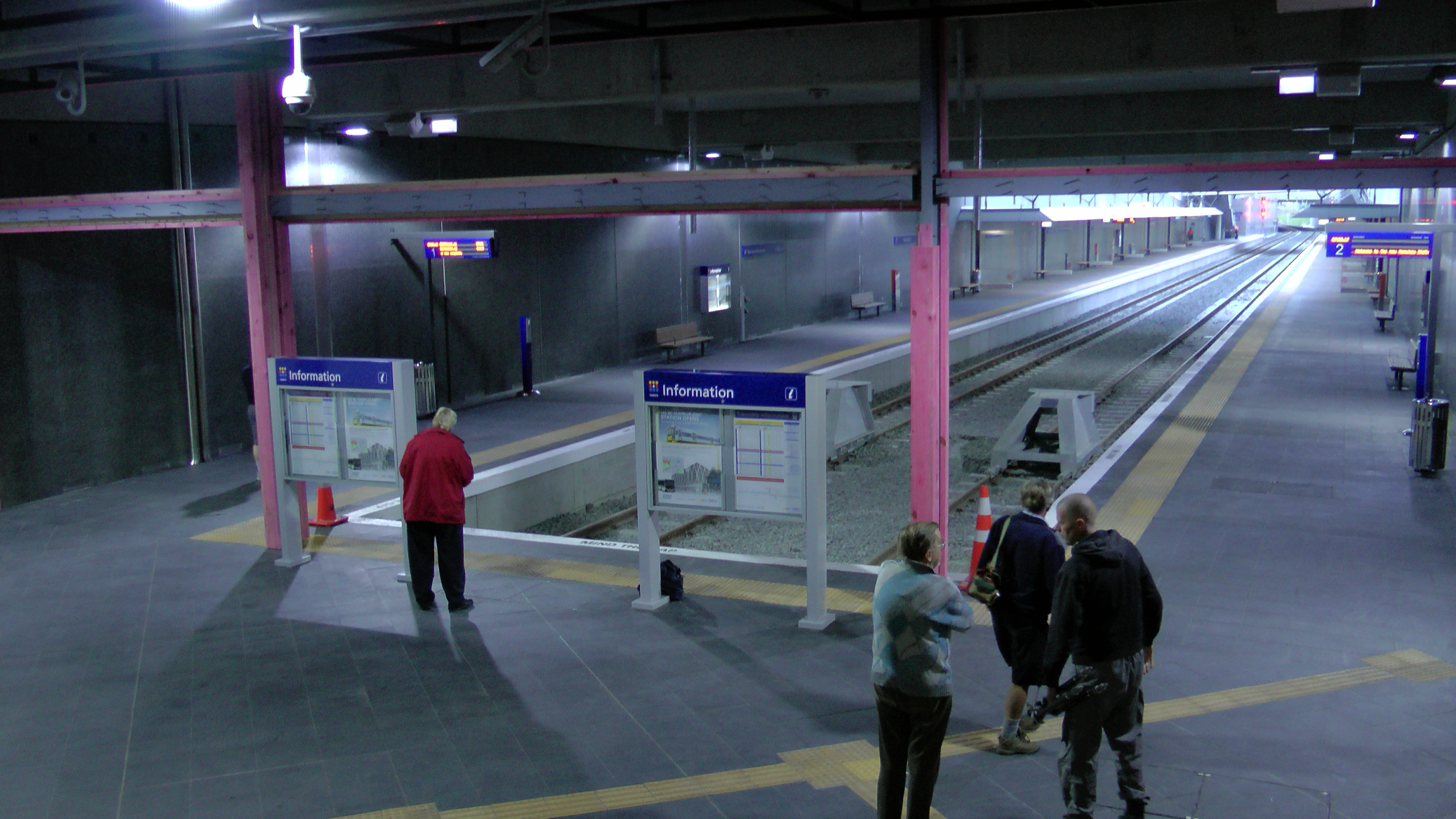 The Manukau Station at Platform Level, taken on the first day of public service, 15th April 2012.